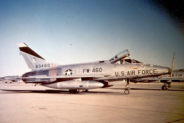 523d Tactical Fighter Squadron - North American F-100D-85-NH Super Sabre - 56-3460